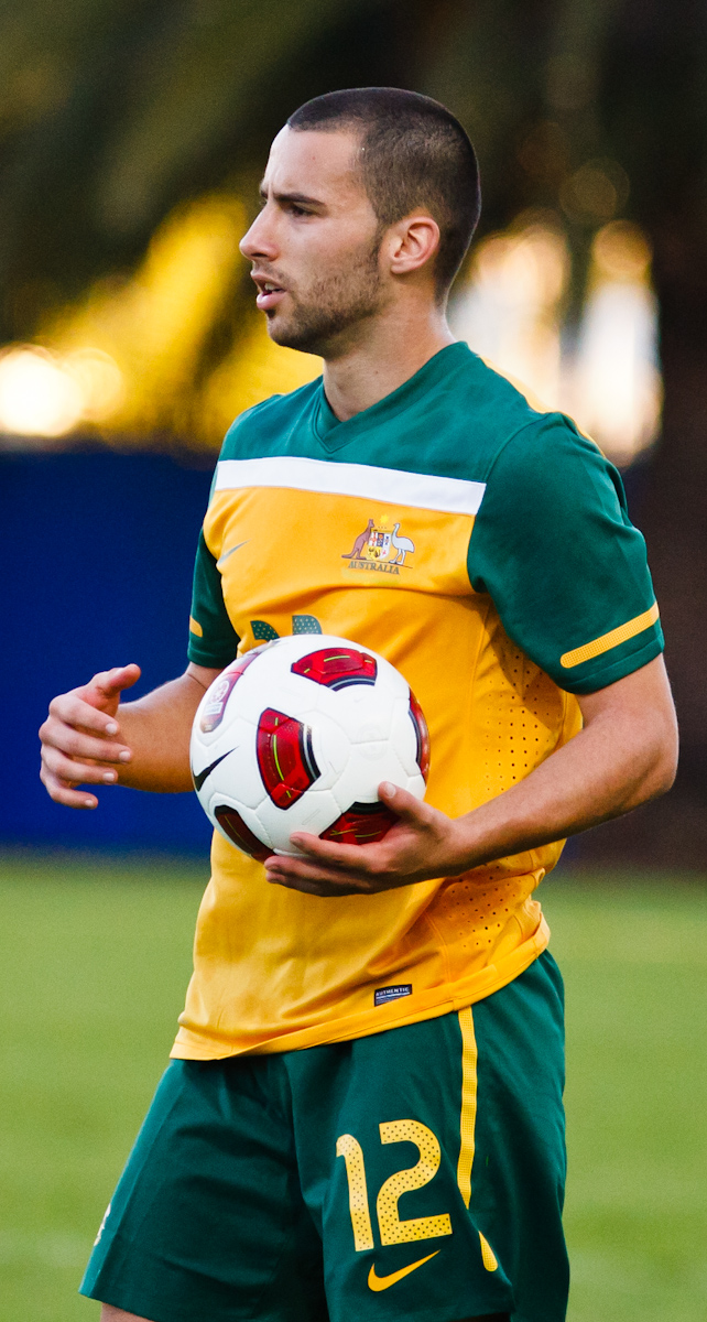 Marko Jesic playing for the Australian Olympic Football team against Yemen in 2011 at Gosford, New South Wales.